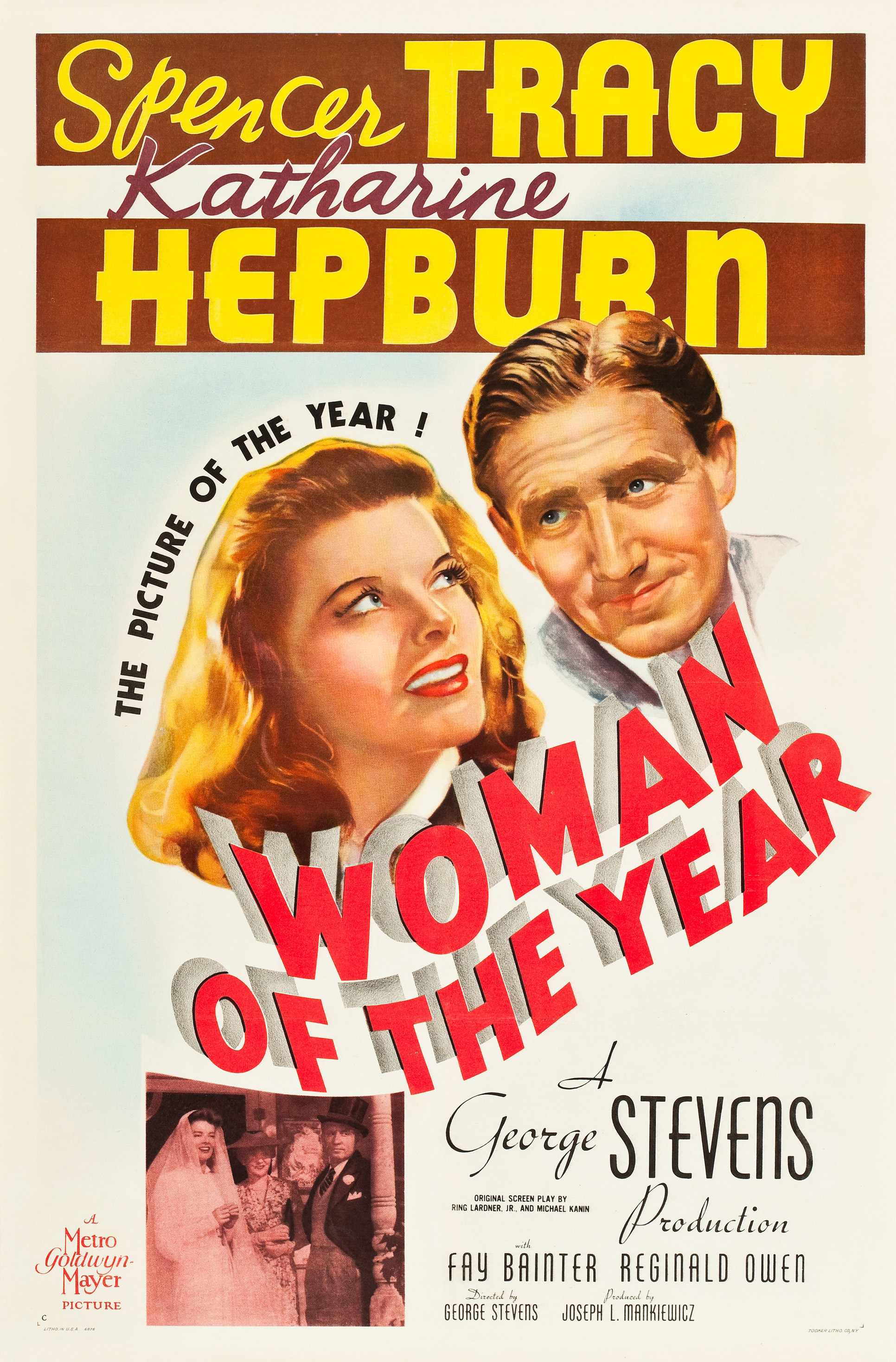 "Style C" theatrical poster for the American release of the 1942 film Woman of the Year.